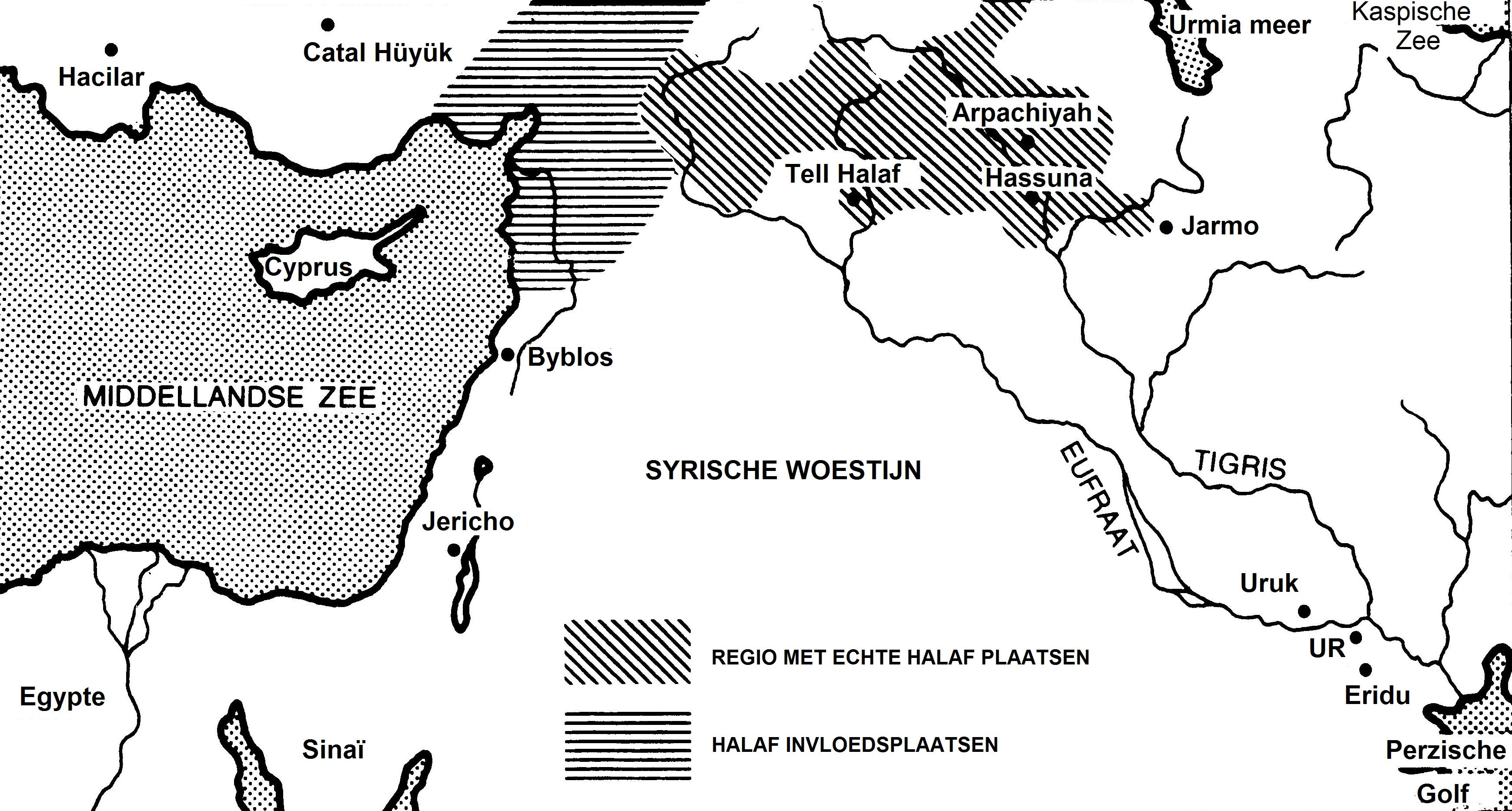 Levant Neolithicum